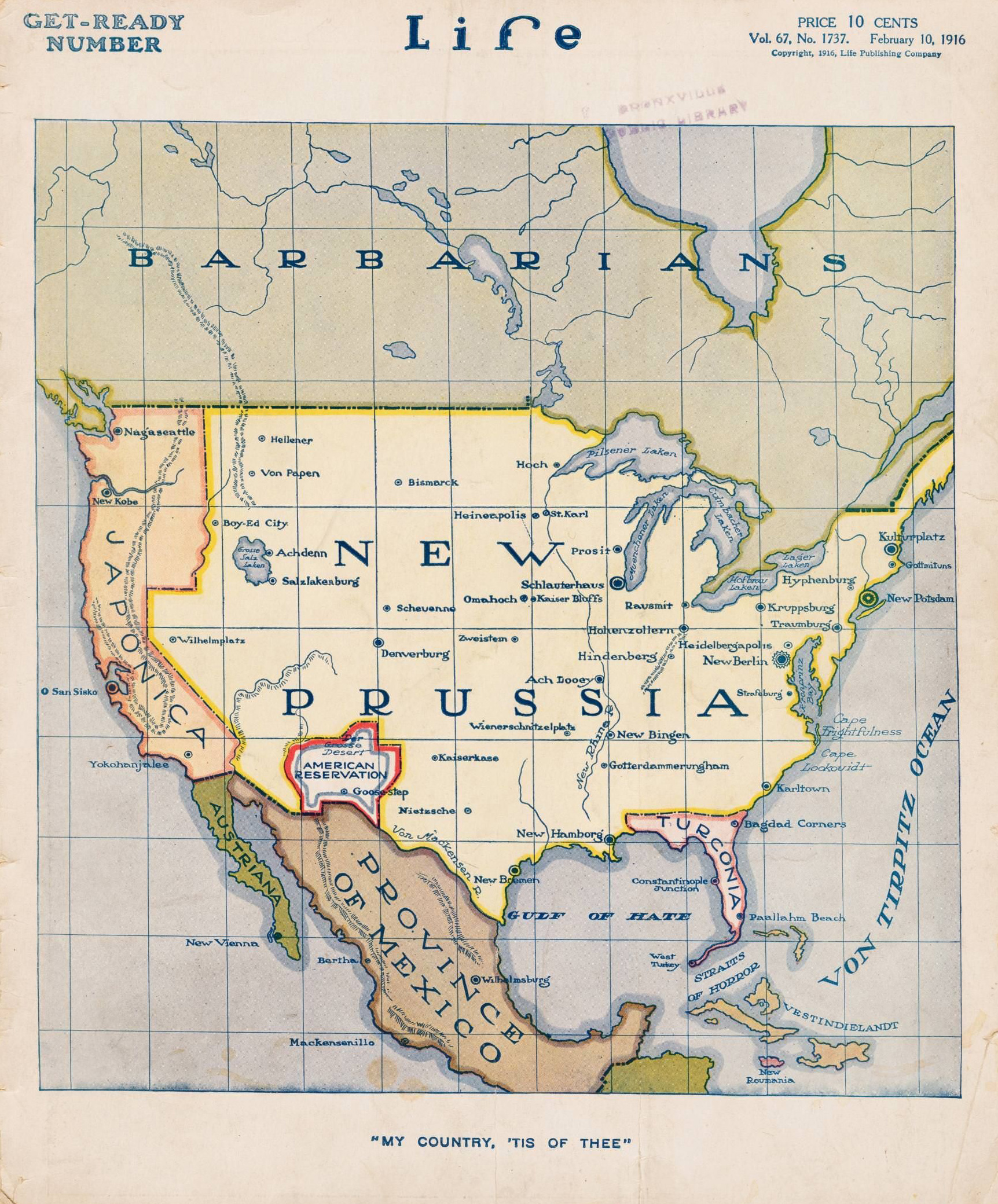 The cover of Life Magazine on February 10, 1916